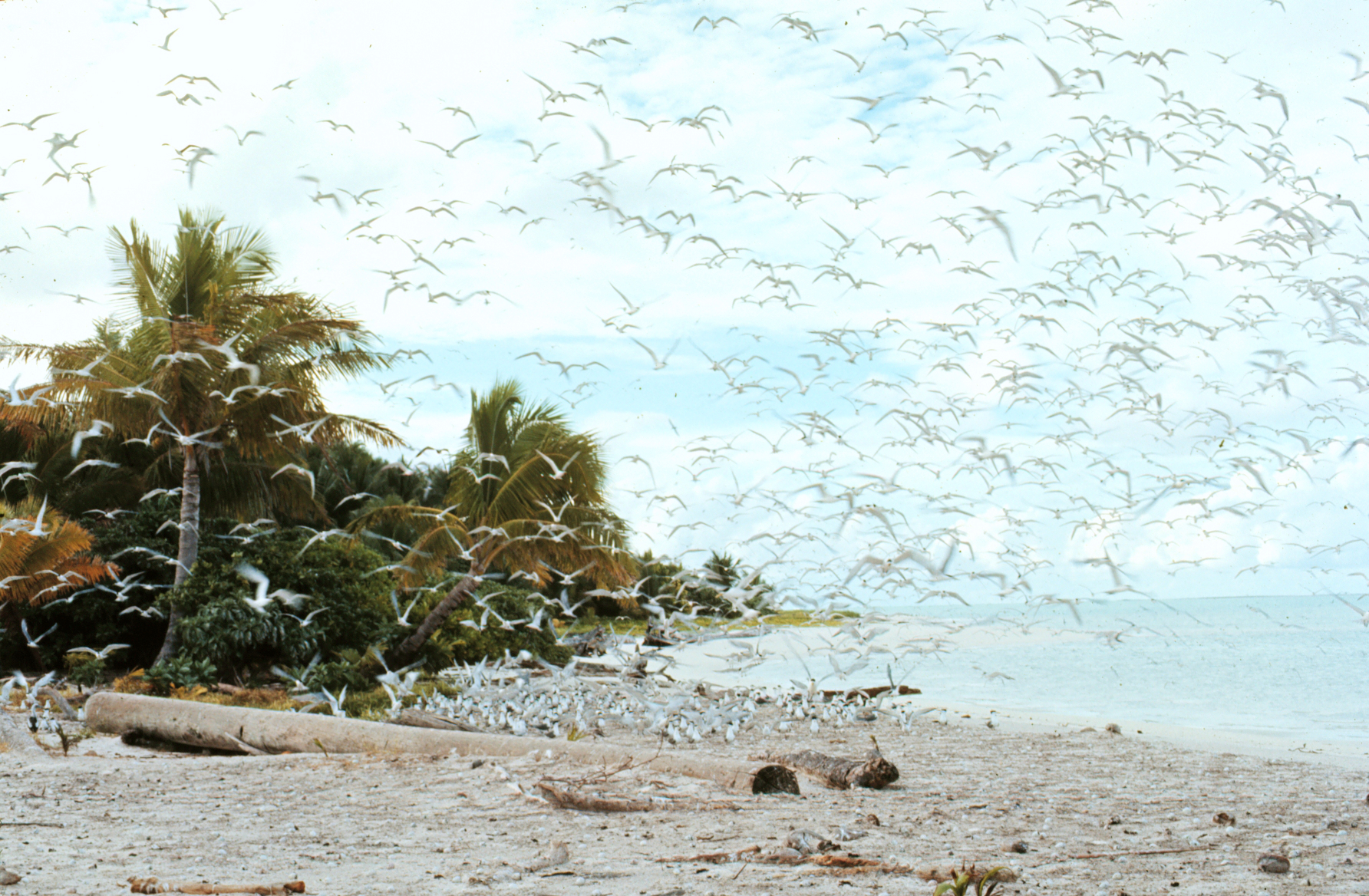 Tern rookery on Helen Island (Helen Reef), Palau